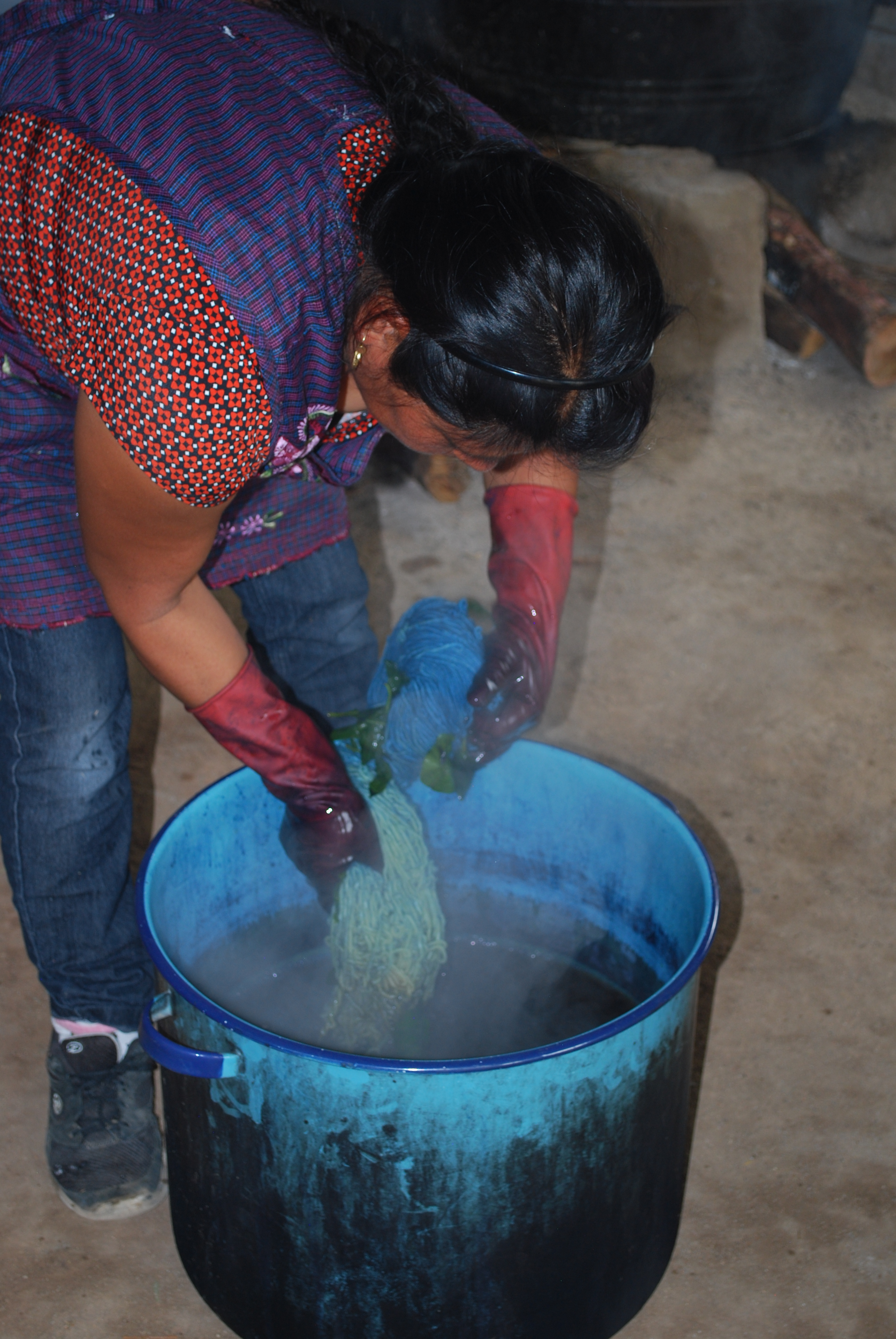 Juana Gutierrez wringing wool yarn after dyeing in natural indigo at the Porfirio Gutierrez family workshop in Teotitlan del Valle, Oaxaca, Mexico